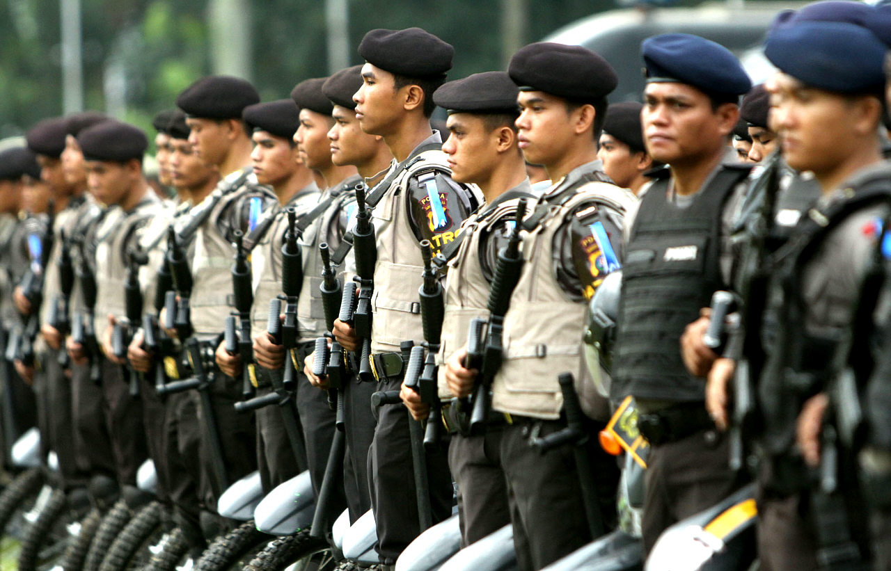 Indonesian police officers in lineup.